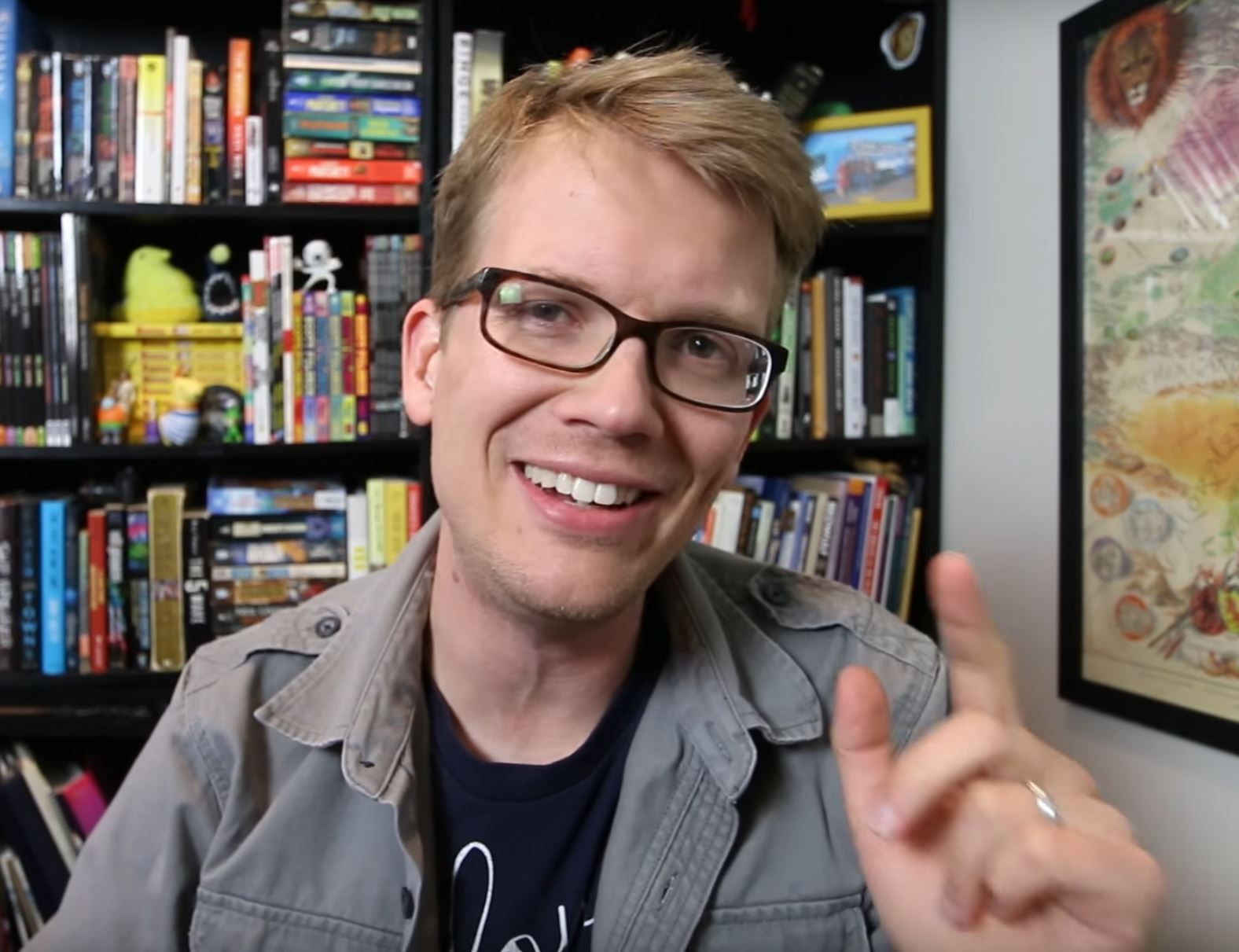 Hank Green appearing in the Vlogbrothers video "47 YouTubers Laugh Without Smiling" in April 2016